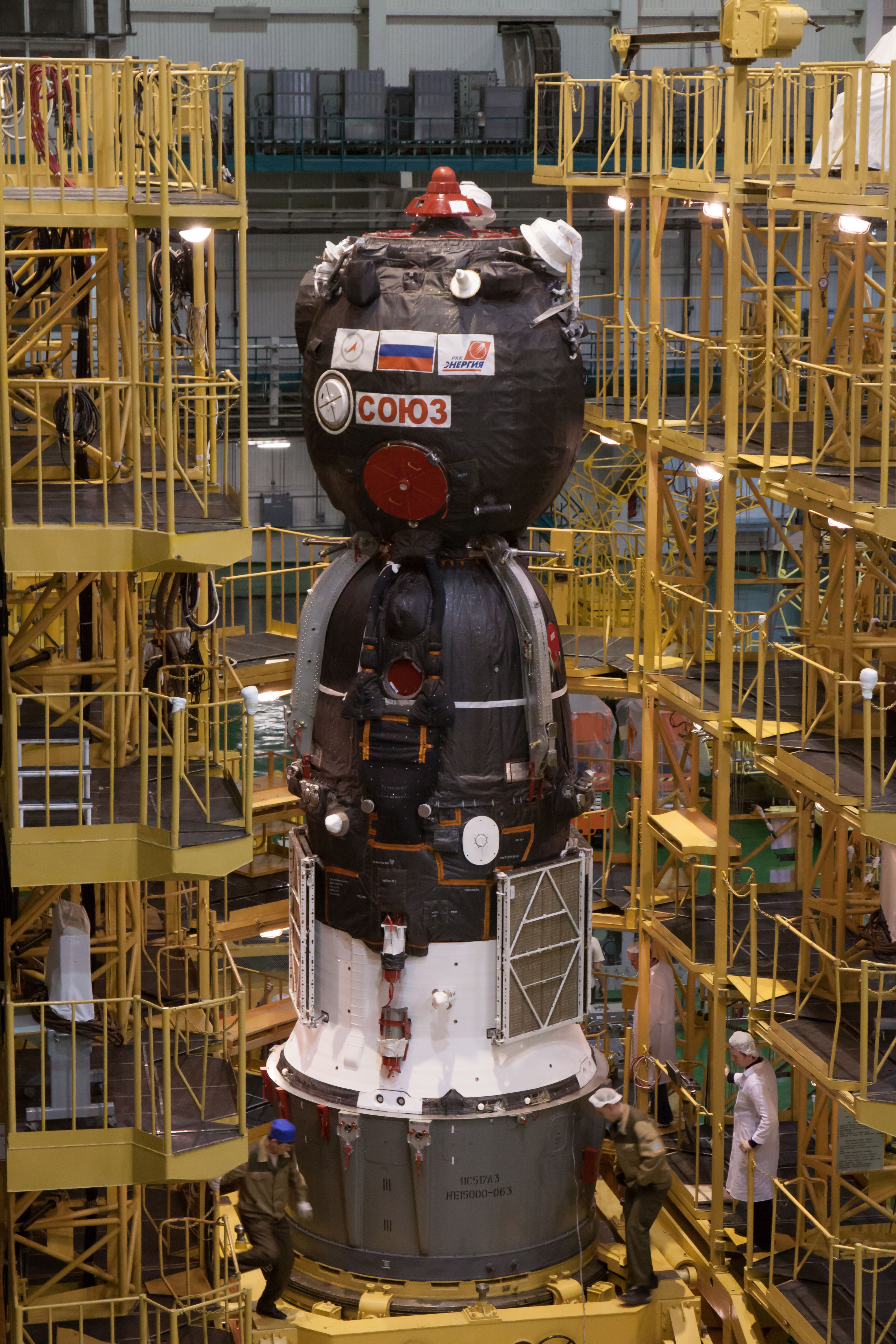 At the Integration Facility at the Baikonur Cosmodrome in Kazakhstan, the Soyuz TMA-08M spacecraft stands ready to be moved into place March 22 for its encapsulation into the third stage of a Soyuz booster rocket. The operation was part of the preparation for the Soyuz's launch March 29, Kazakh time, to carry Expedition 35/36 Flight Engineer Chris Cassidy of NASA, Soyuz Commander Pavel Vinogradov and Flight Engineer Alexander Misurkin to the International Space Station for a 5 ½ month mission.